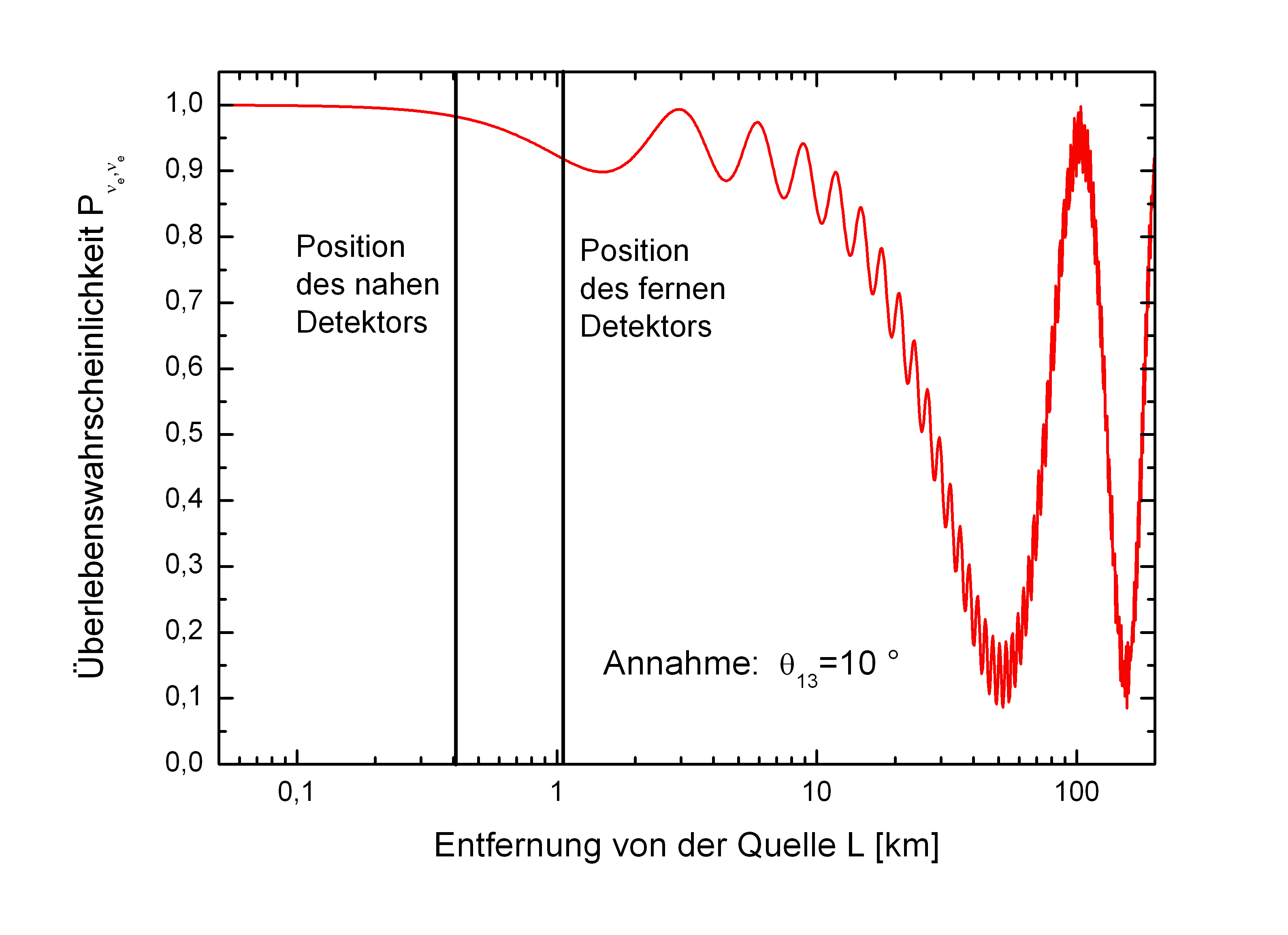 Oszillationswahrscheinlichkeit von Elektronantineutrinos